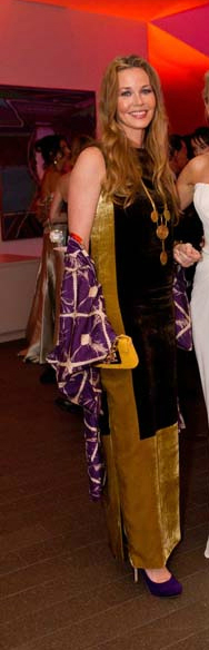 Connie Nielsen in 2011